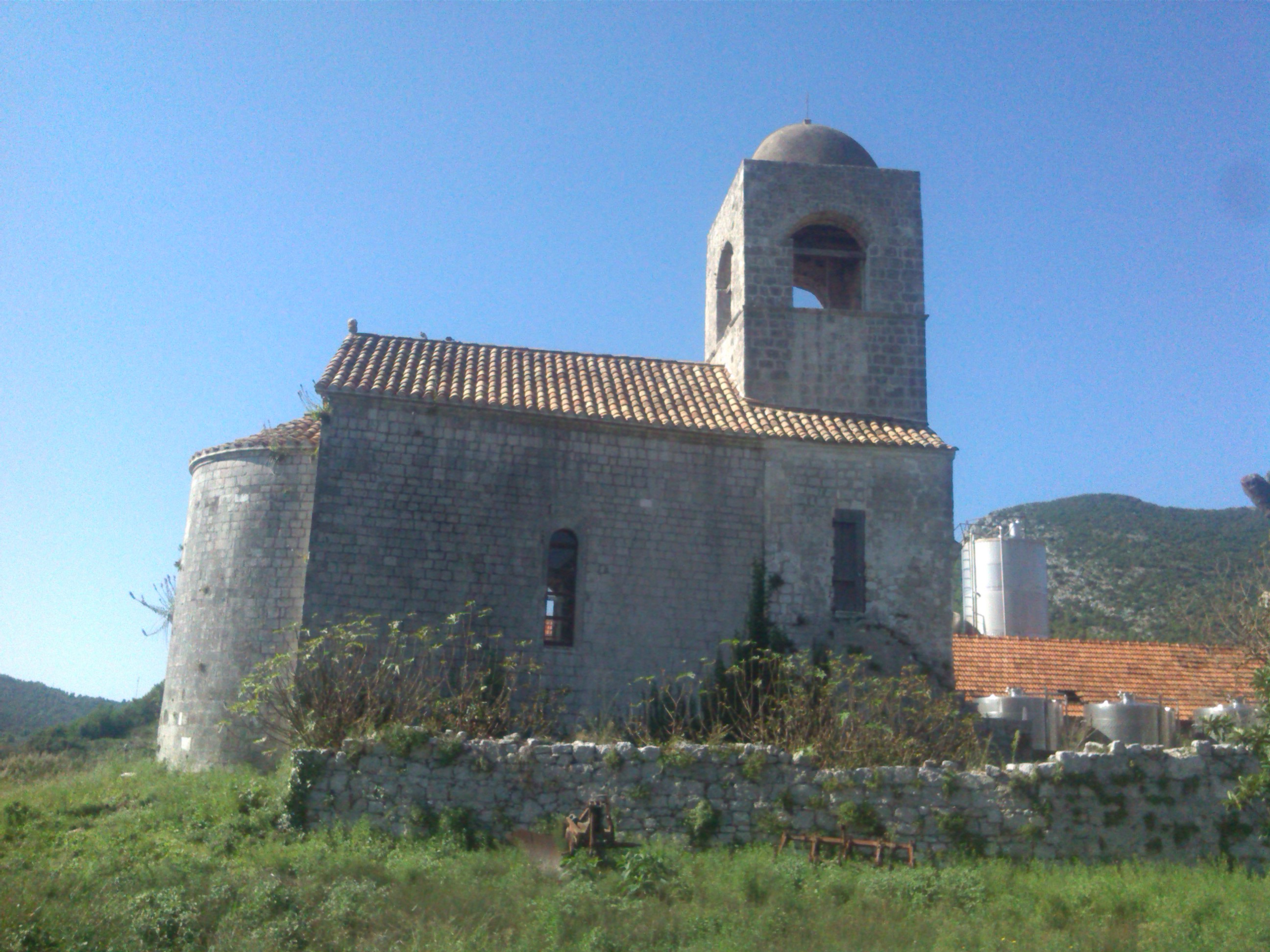 Our Lady of Lužine church in Ston